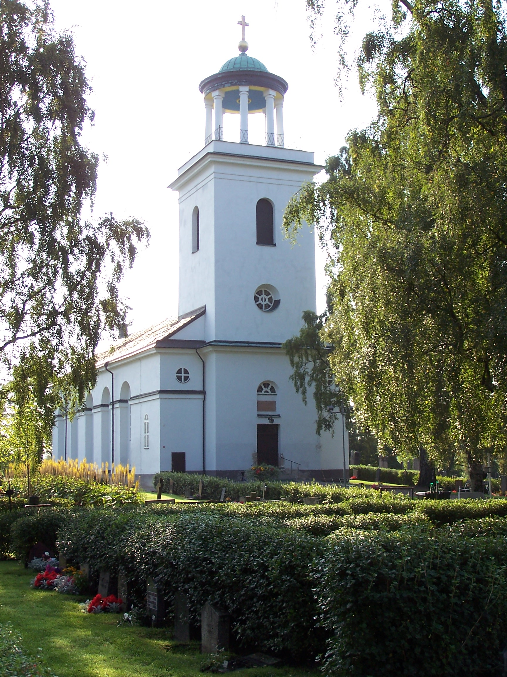 Timrå kyrka (Timrå church), diocese of Härnösand, Sweden.